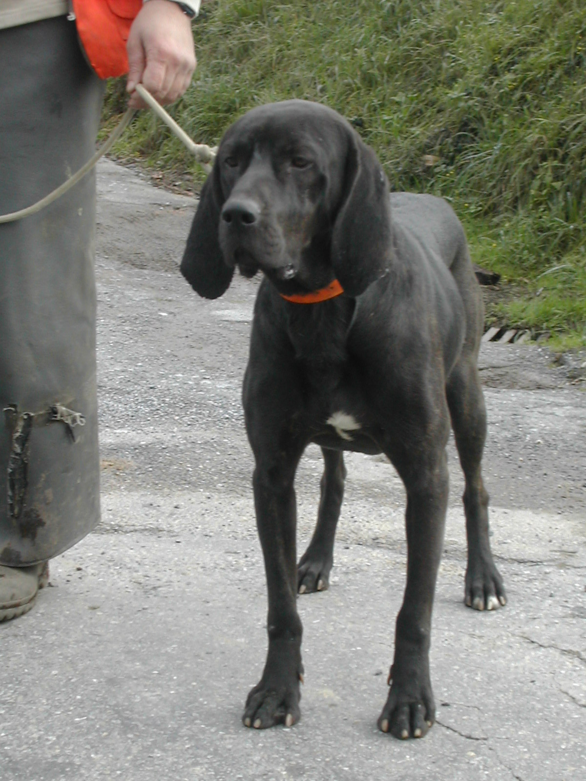 Plott Hound